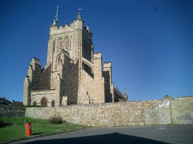 St. Hilda's Church, Hartlepool Headland, Durham, Great Britain